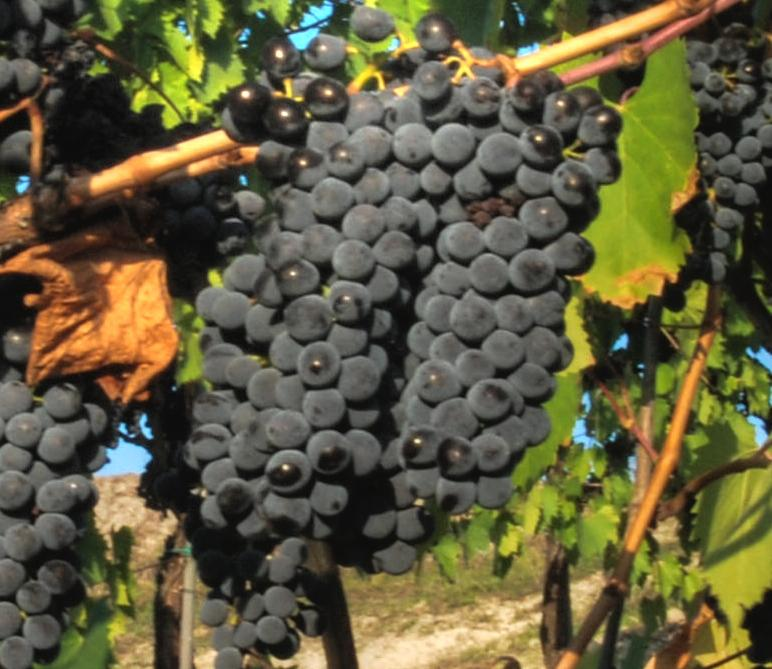 Cropped version of Sangiovese grapes on the vine